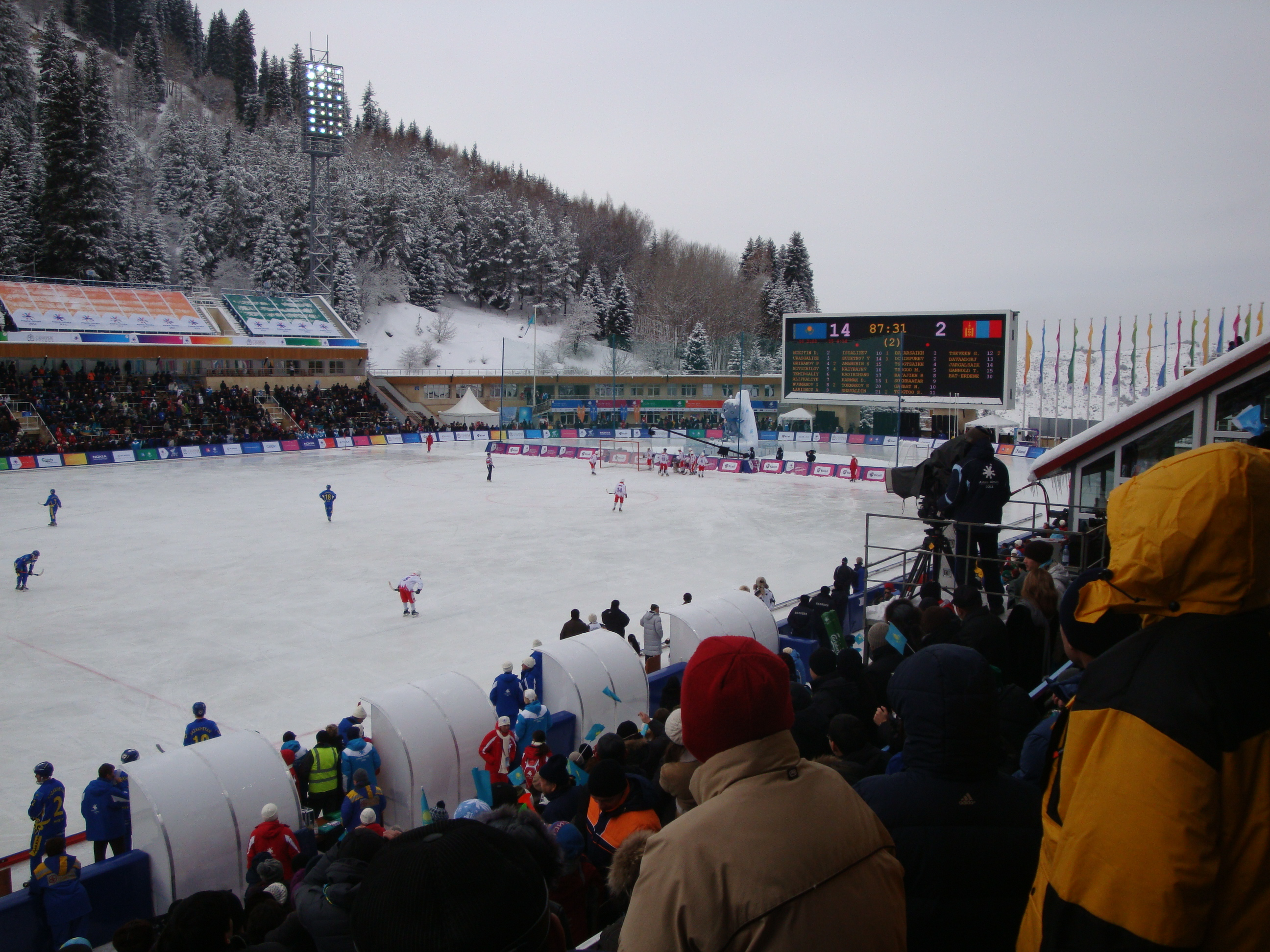 Bandy, a very popular winter sport in Kazakhstan. Medeu is the highest sport arena. The photo was taken during the ASIADA games in Nur-Sultan-Almaty.